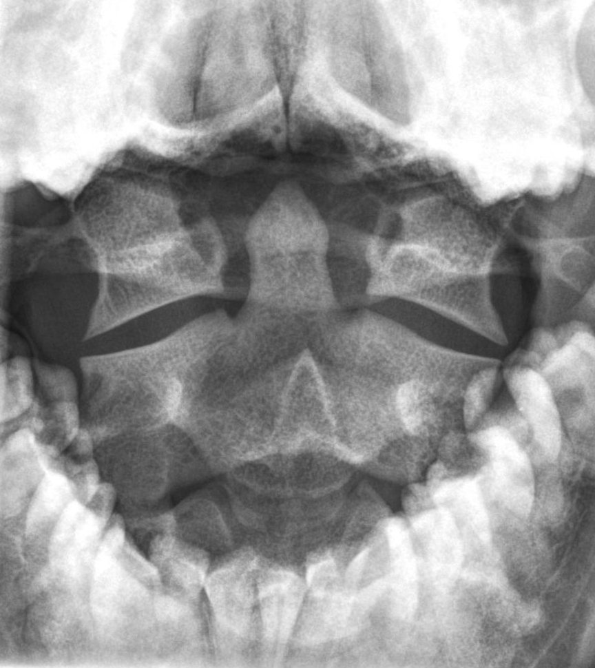 Dens axis: X-ray